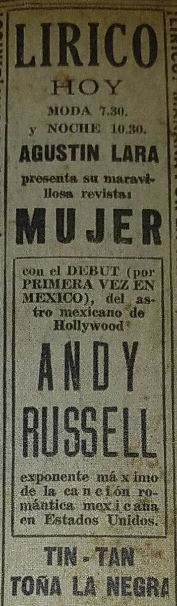 Newpaper clipping in Spanish advertising show at Teatro Lirico. 1953